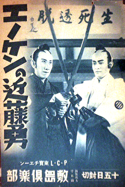 poster of 'Enoken no Kondo Isami'